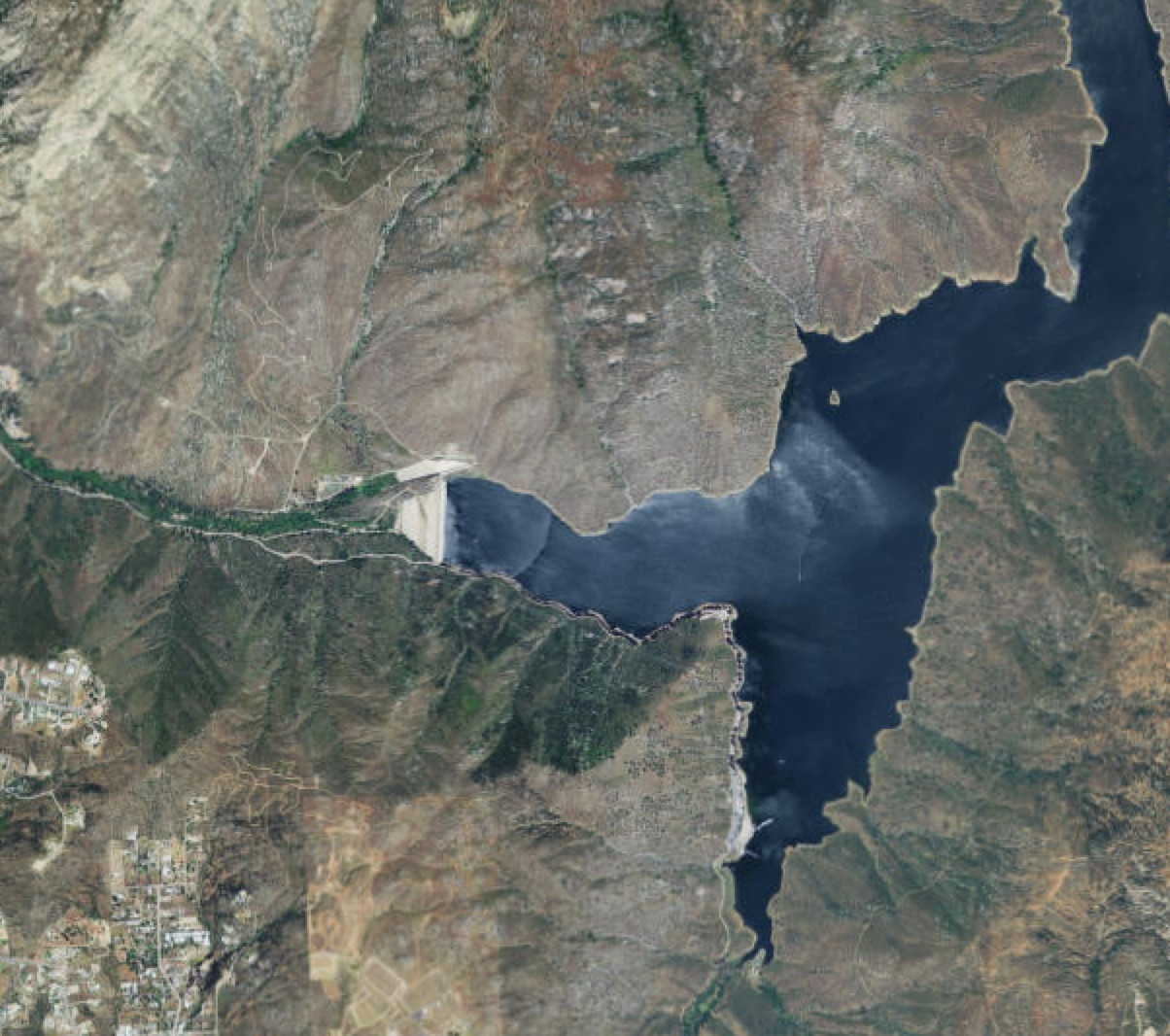 Satellite view of El Capitan Dam and part of reservoir in San Diego County, CA